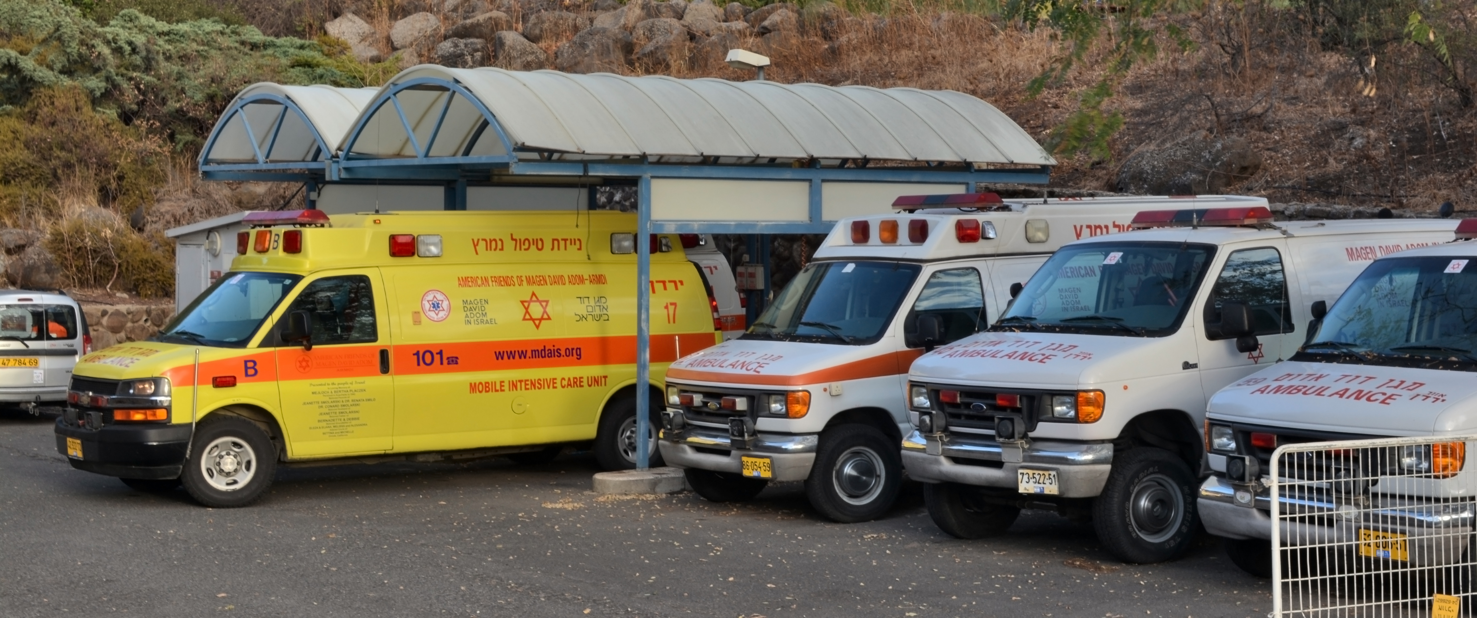 Clalit clinic. Katsrin. Golan heights.